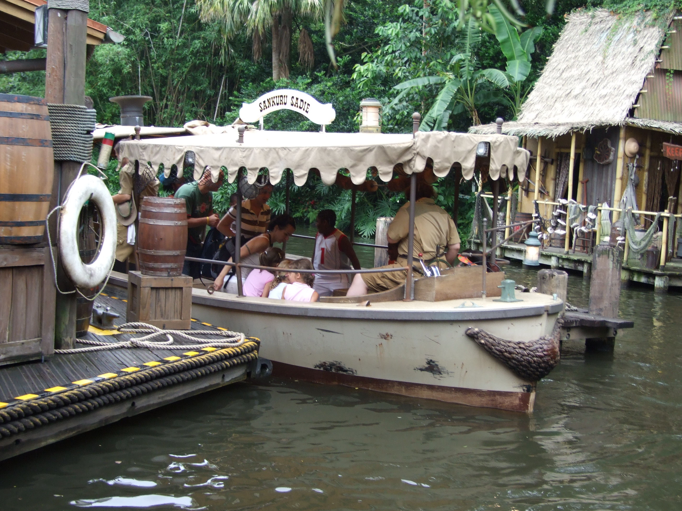 Uploaded by photographer